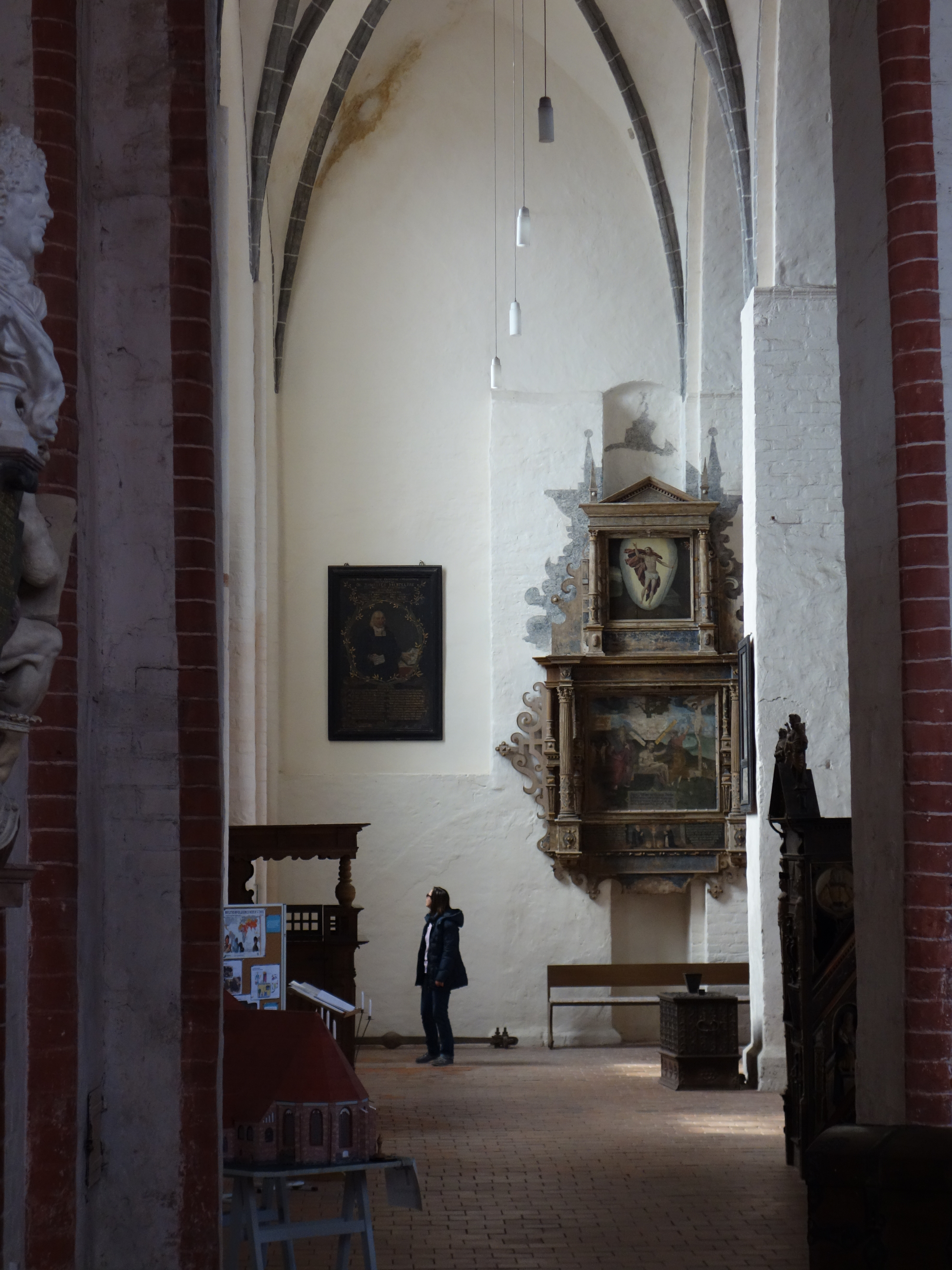 Western view of south aisle of church St. Peter and Paul, Wusterhausen municipality, Ostprignitz-Ruppin district, Brandenburg state, Germany